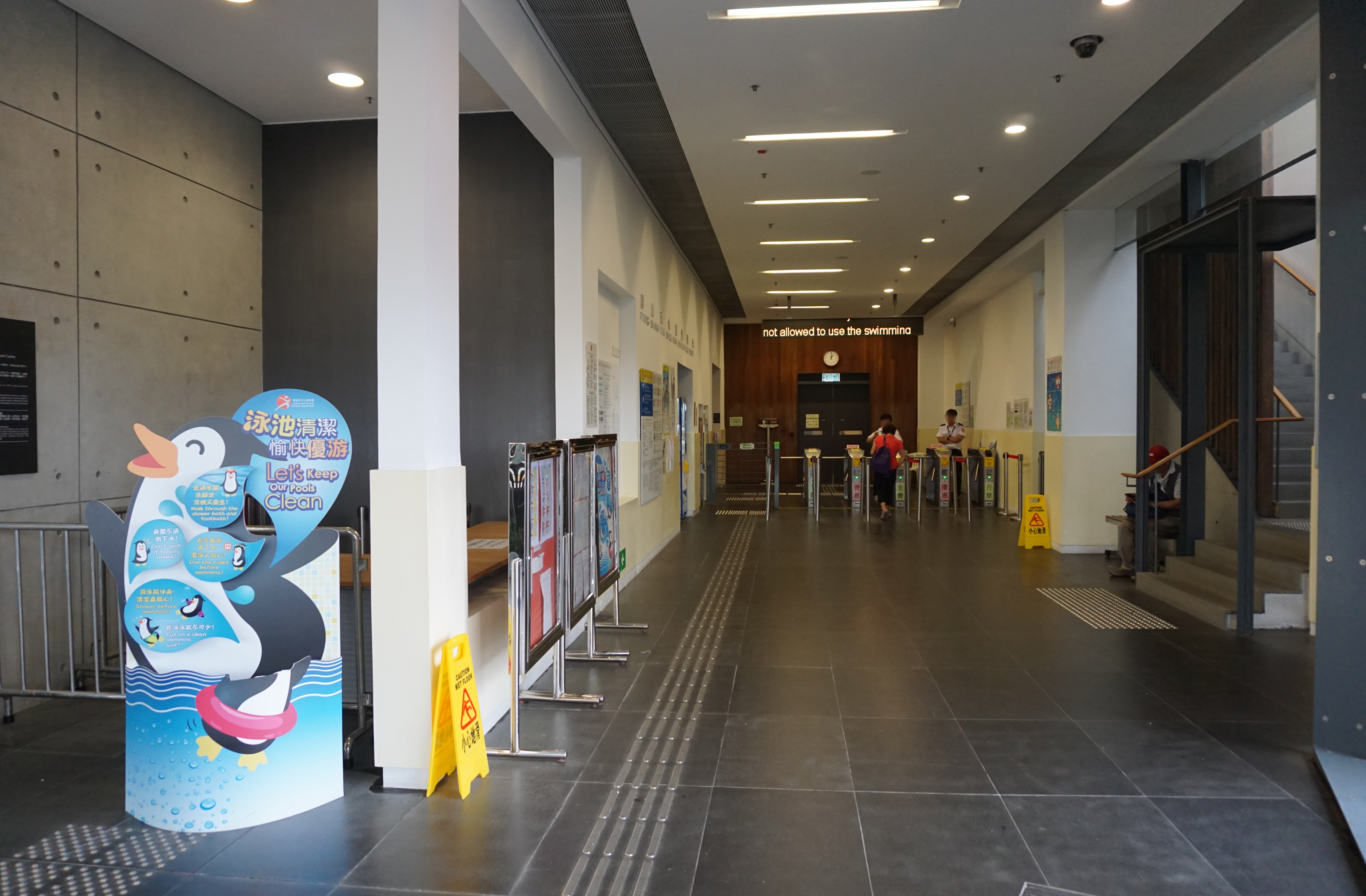 Ping Shan Tin Shui Wai Swimming Pool in Tin Shui Wai, Hong Kong.